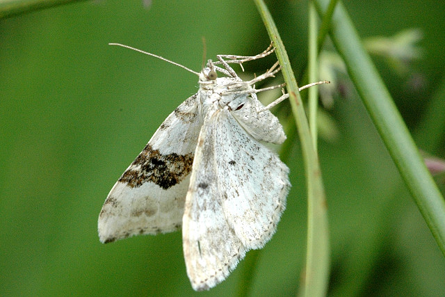 Xanthorhoe montanata from Commanster, Belgian High Ardennes .